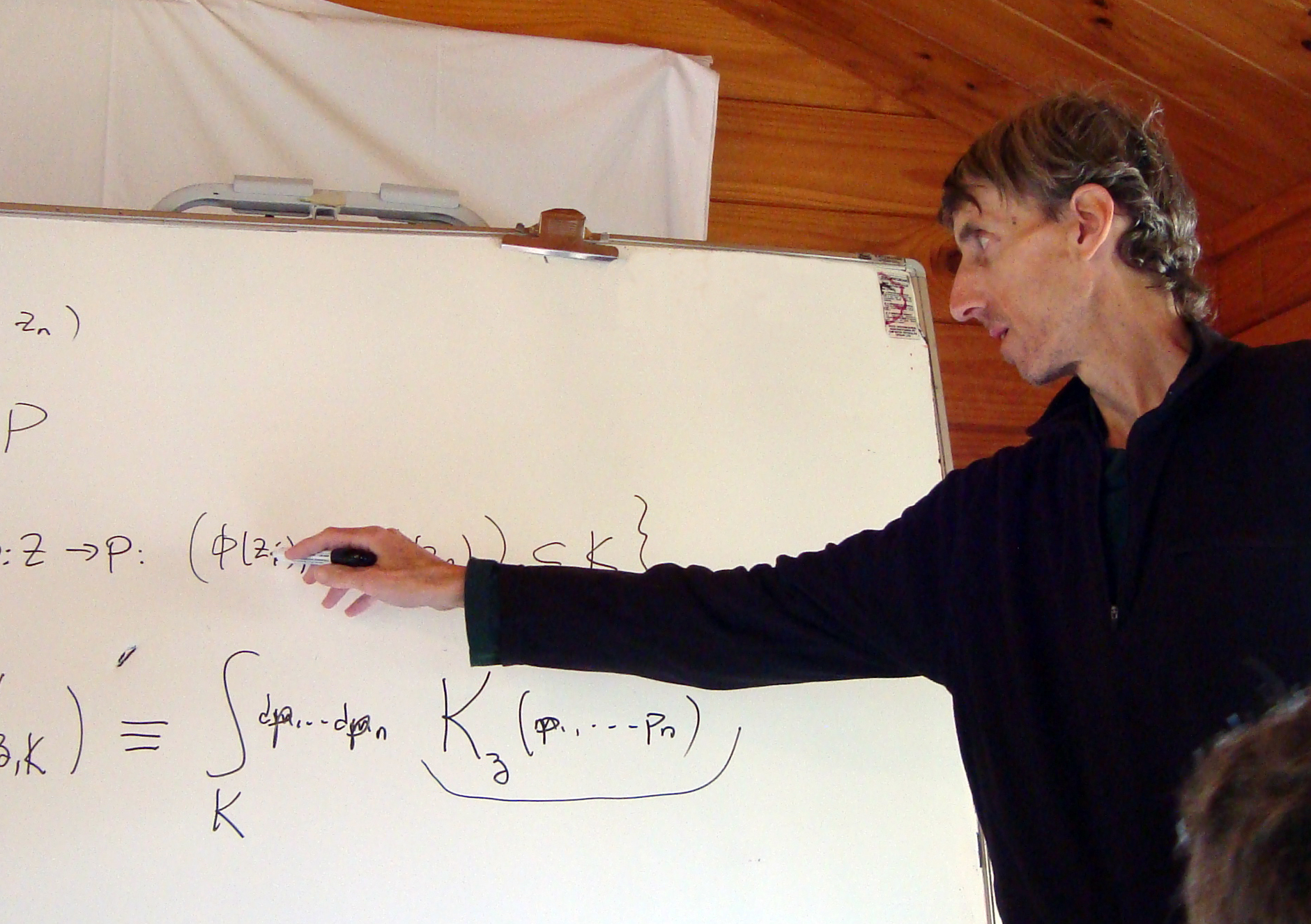 William Petschek Professor of Mathematics at Harvard Clifford Henry Taubes during the 2010 NZIMA Workshop on Topological Quantum Field Theory and Knot Homology Theory in Hahei, New Zealand.